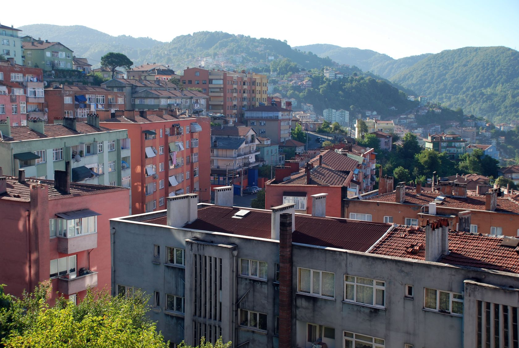 Zonguldak, Turkey